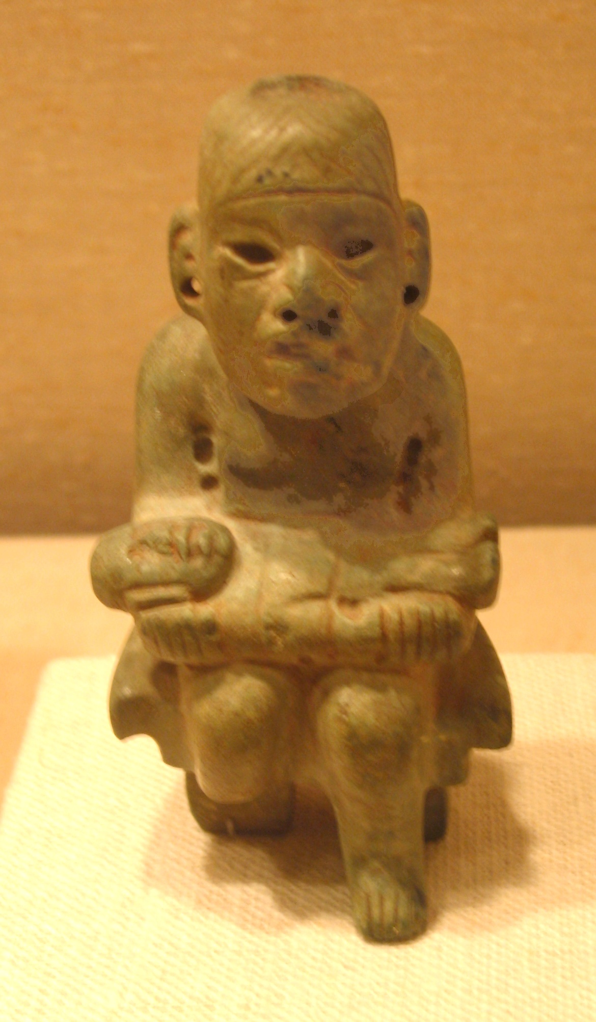 A greenstone (serpentine) figurine showing a a male (per Joralemon) or female (per Coe) "presenting" a were-jaguar infant, a common theme in Olmec art. The adult is seated on what Joralemon calls a "Cloud Throne". Middle Classic Period; Height: 11.4 cm (4.5 in).